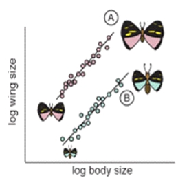 size butterfly